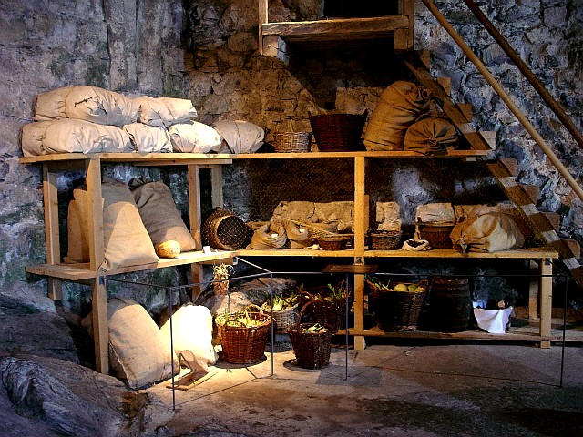 Chillon